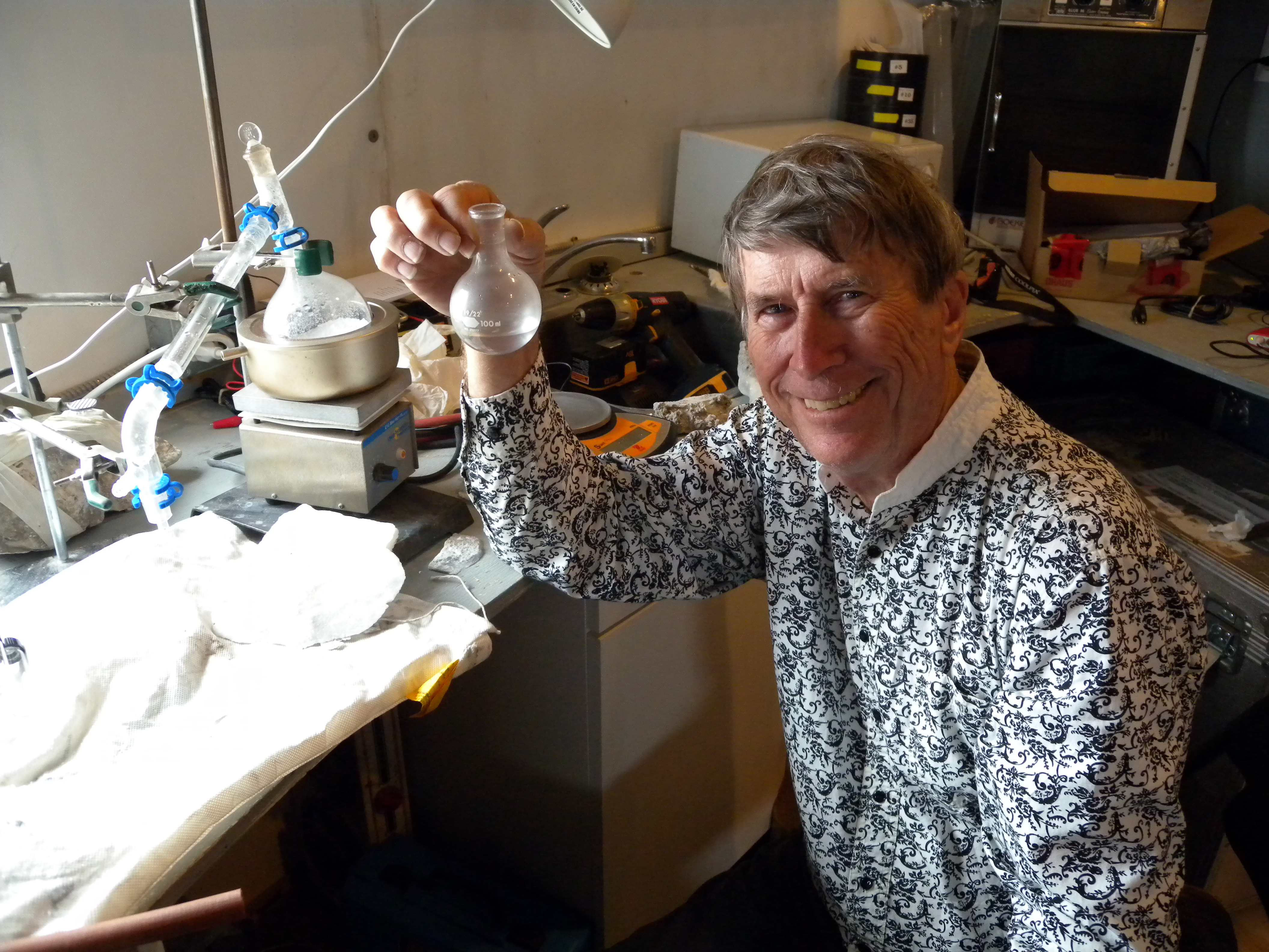 FMARS-12 Commander Kramer showing the water extracted from the gypsum sample he collected in the field